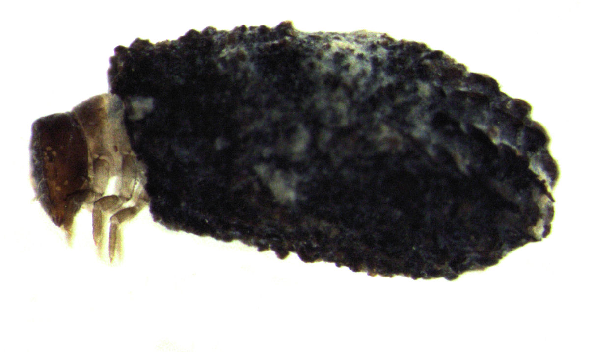 larva of a cryptocephaline chrysomelid (length of case about 1.8 mm). Shakespear Regional Park, pitfall trap J26 NE 1-3, Auckland, New Zealand, 2010.